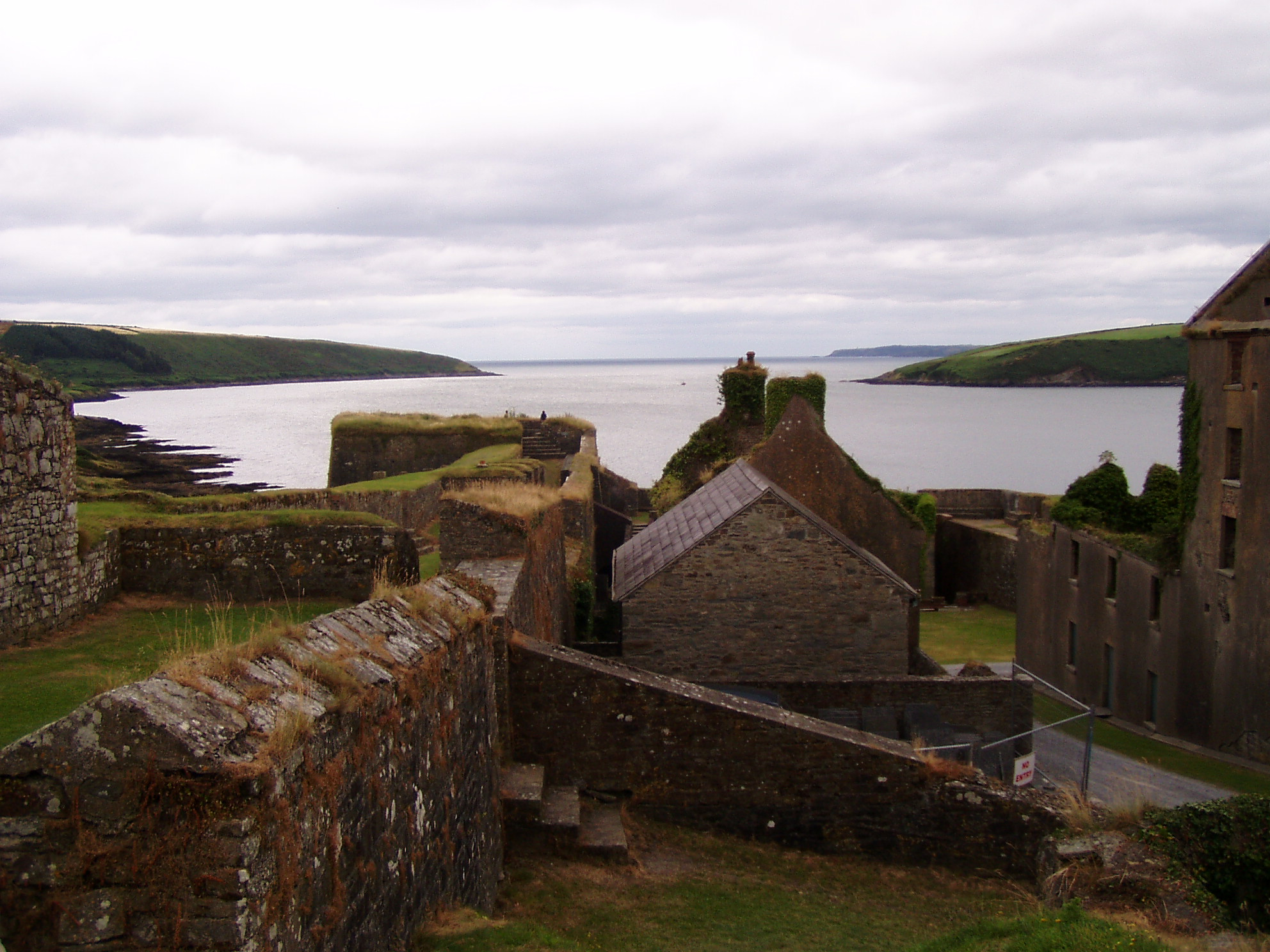 Town of Kinsale in the Ireland. Fortress Charles Fort near town.